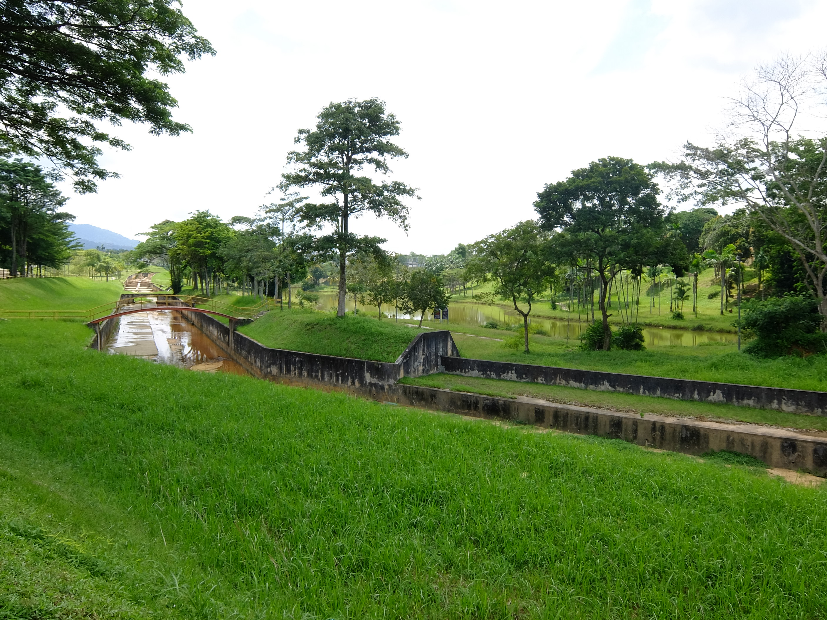 Pulai Indah Recreational Park, Pulai Indah, Kangkar Pulai, Iskandar Puteri, Johor Bahru, Johor, Malaysia